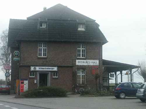 Germany, Bedburg-Hau, railwaystation